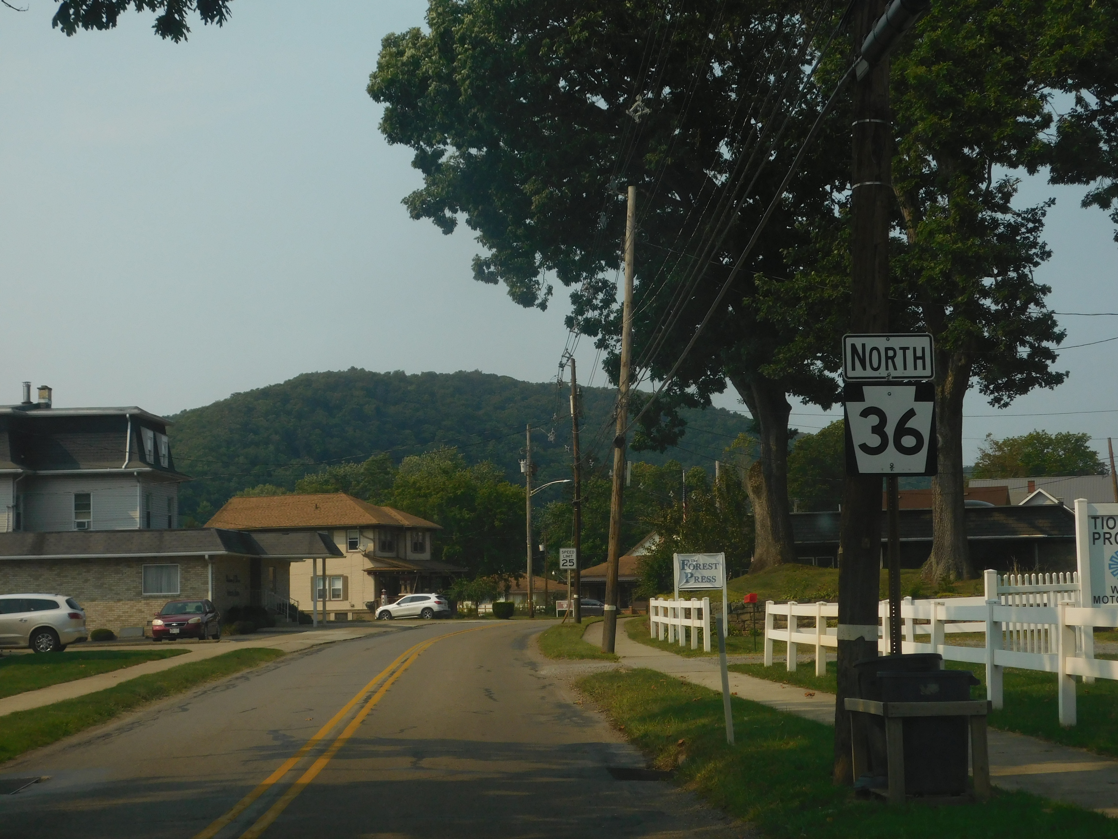 PA 36 in downtown Tionesta, Pennsylvania.